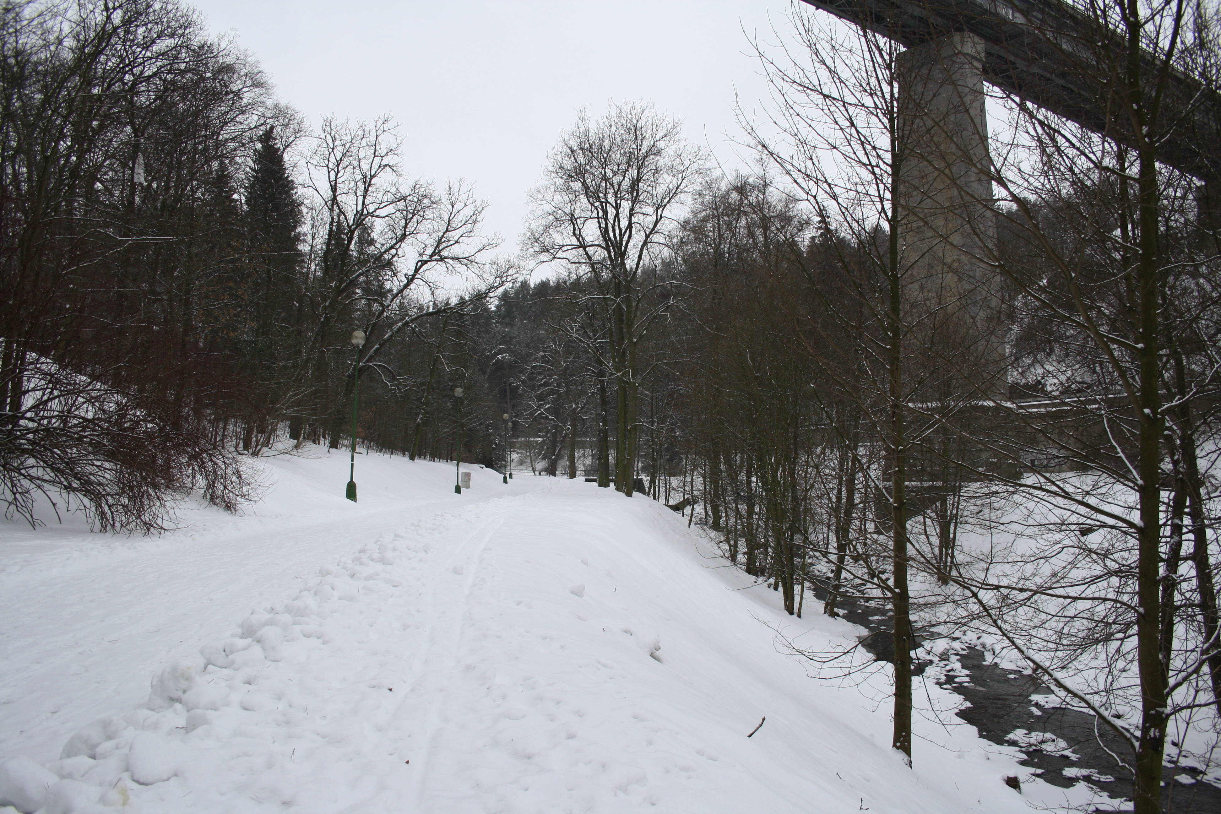 Libuše's Valley in Třebíč, Czech Republic in Winter, view from Na potoce street.